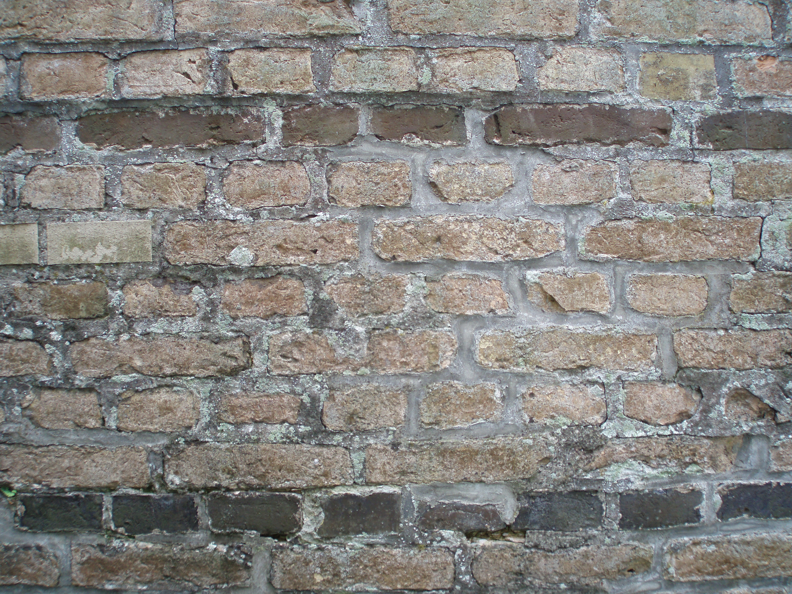 Yet another brick wall.